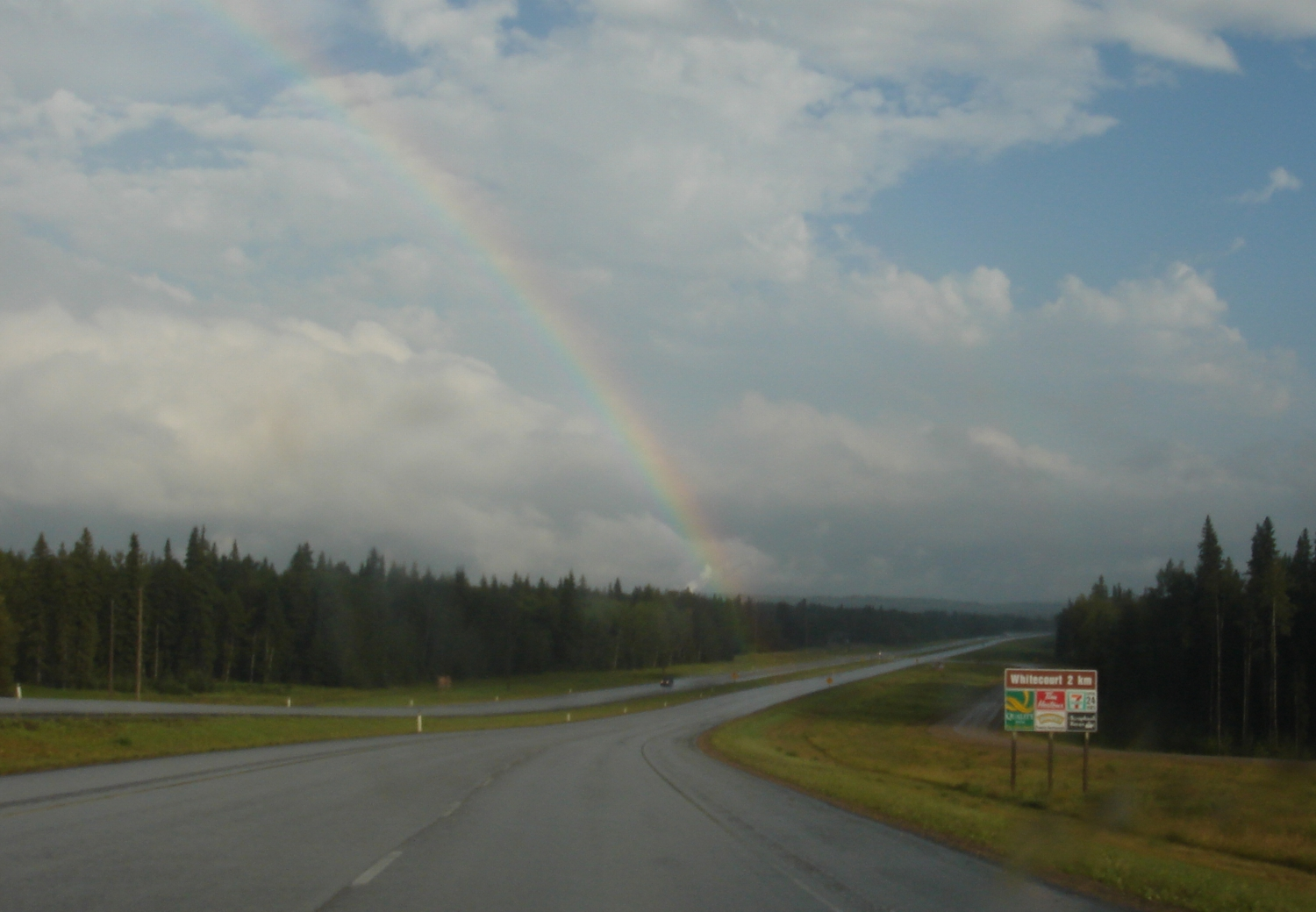 Highway 43, eastbound, west of Whitecourt, Alberta, Canada